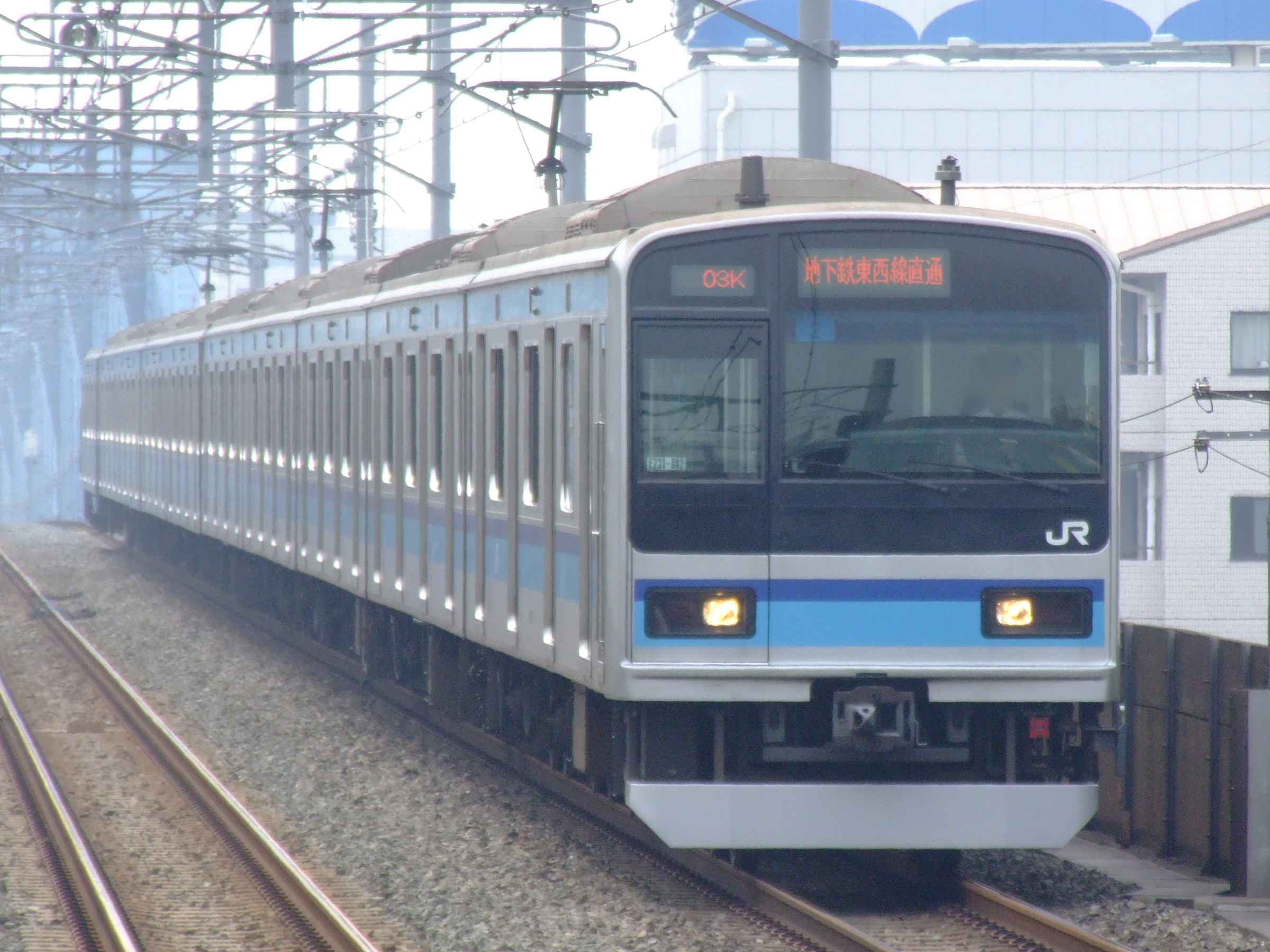 East Japan Railway type E231 No.800 (This series can go to Tokyo Metro Tozai Line)